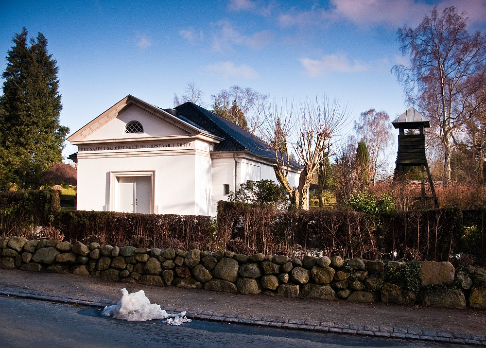 The chapel at Hørsholm Cemetary with the bell tower, Kirkegårdsvej 1, Hørsholm, Denmark